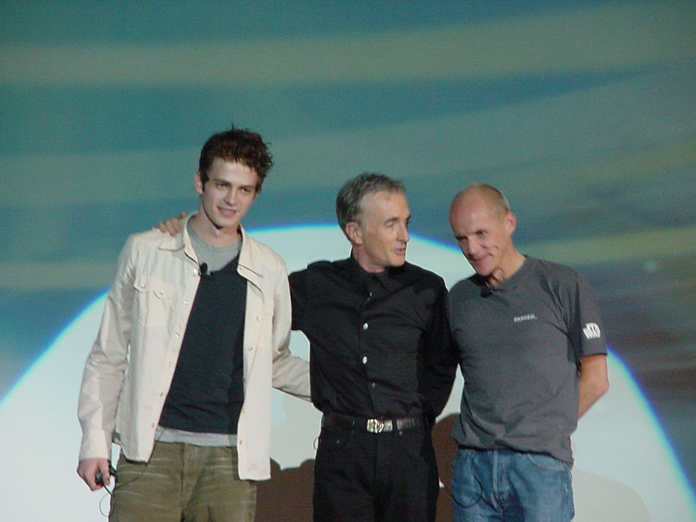 Star Wars Celebration II - Hayden Christensen, Anthony Daniels, and Nick Gillard